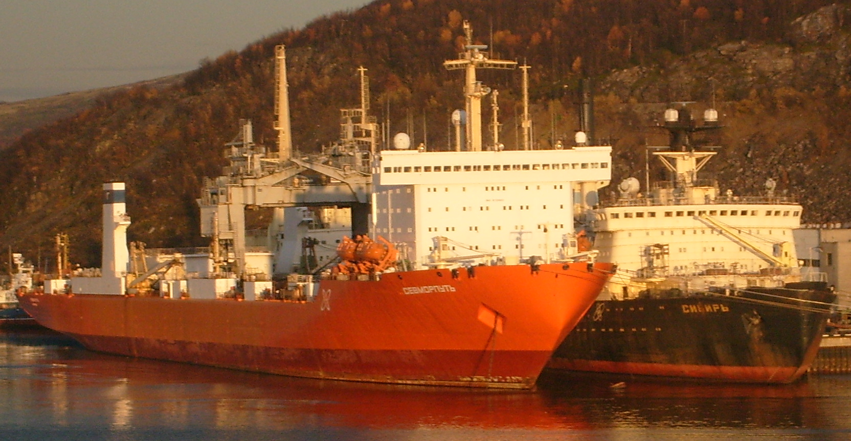 Russian nuclear-powered cargo ship Sevmorput SEVMORPUT IMO number: 8729810 Callsign: UHBY